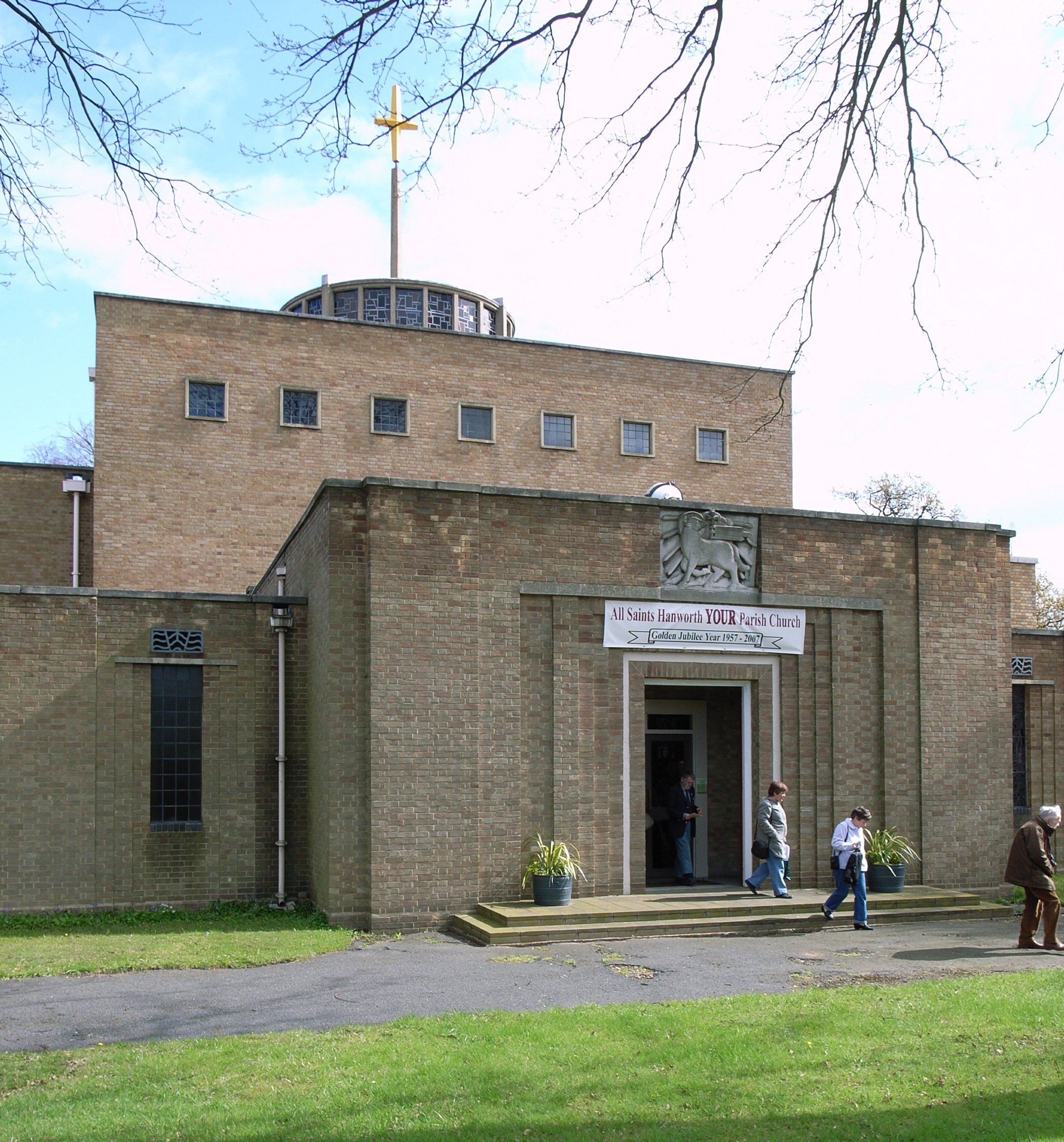 All Saints, Uxbridge Road, Hanworth, West London (1951-57) by Nugent Cachemaille-Day. Photo taken on a Twentieth Century tour of modern churches in West London on 12th April 2008.